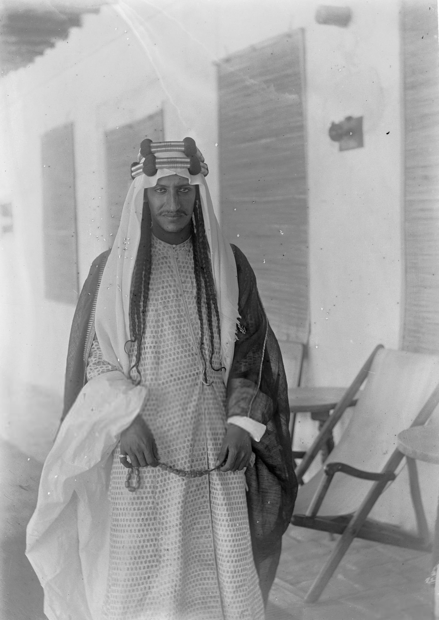 Prince Sa’ad Ibn Saud, in a photograph taken by Captain Shakespear in 1911. Royal Geographical Society